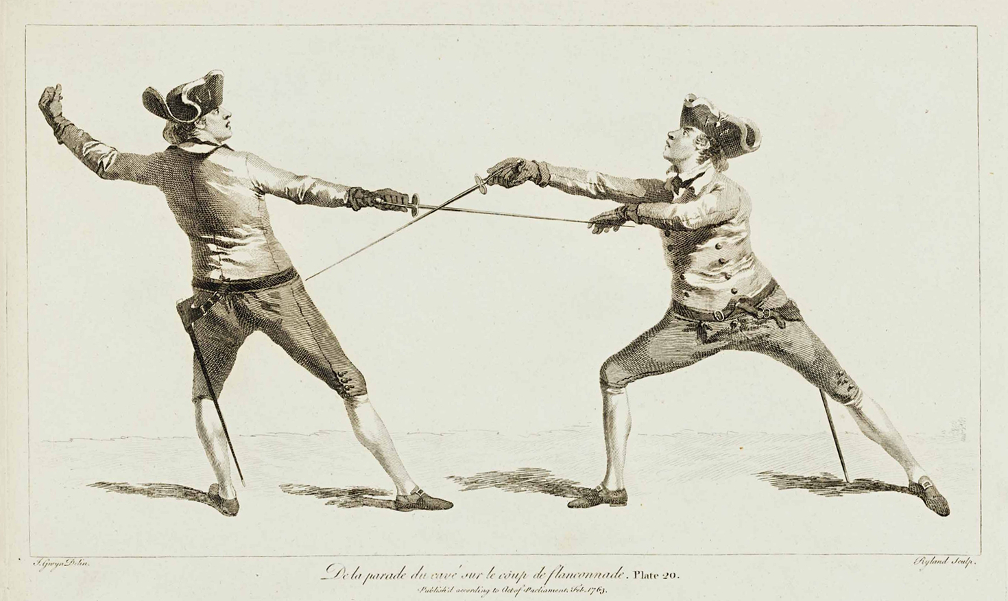 “De la parade du cavé sur le coup de flanconnade”, plate 20 from The School of Fencing, with a general explanation of the principal attitudes and positions peculiar to the art, published in London by S. Hooper in 1765.